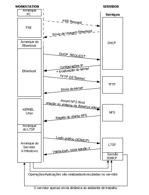 Description LTSP transfers overview Source/Author Nuno Tavares